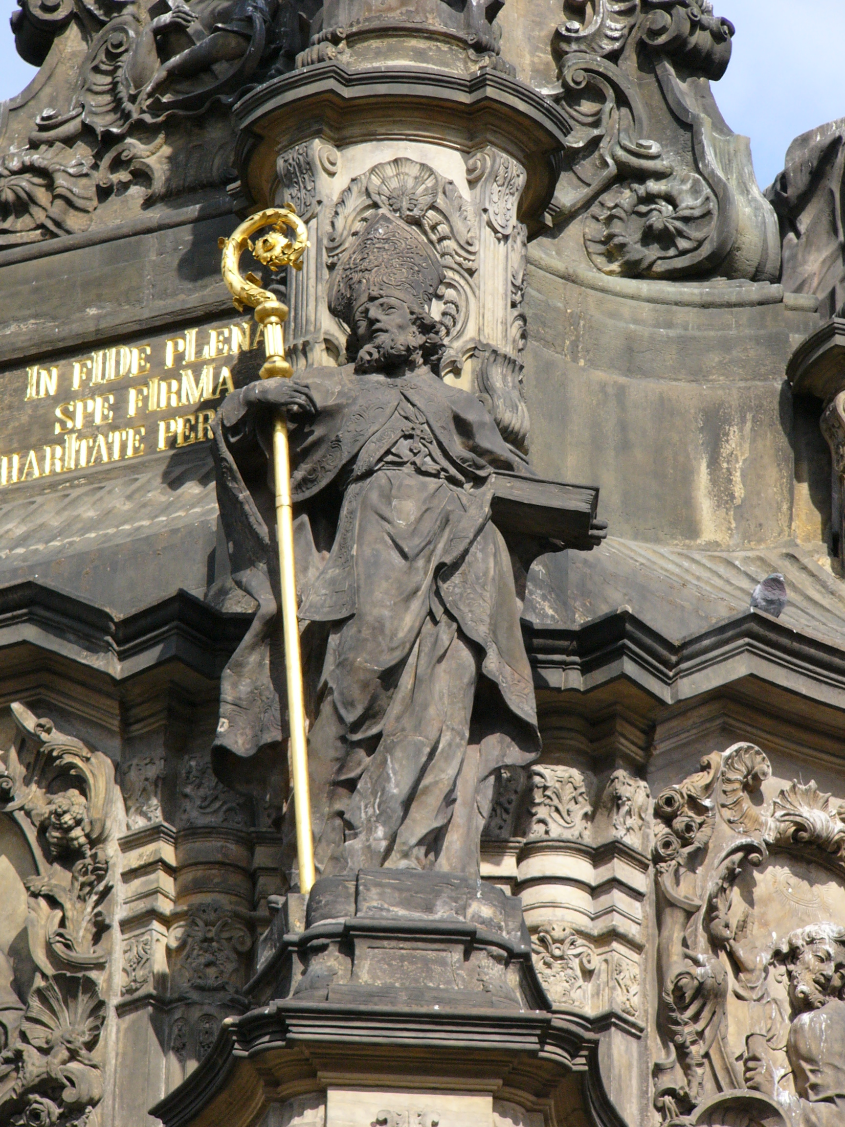 Statue of Saint Blaise on the Holy Trinity Column in Olomouc in Olomouc (Czech Republic).